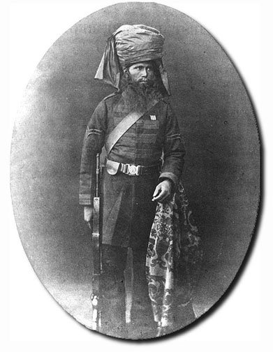 Lance Naik Wazir Khan, 27th Bombay Native Infantry (now 10 Baloch, Pakistan Army).